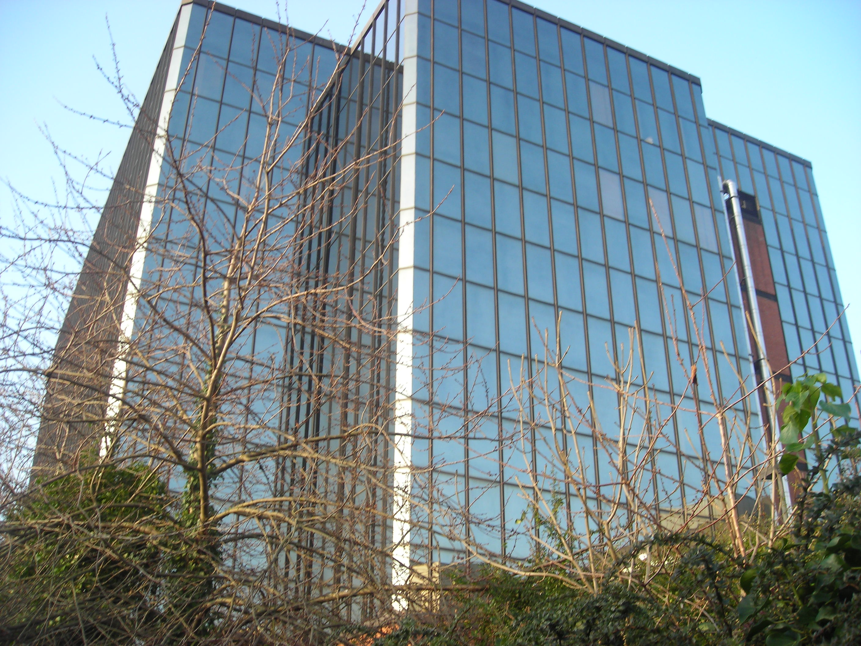 Photograph of an office building close to East Croydon railway and tram station. 41 Cherry Orchard Road